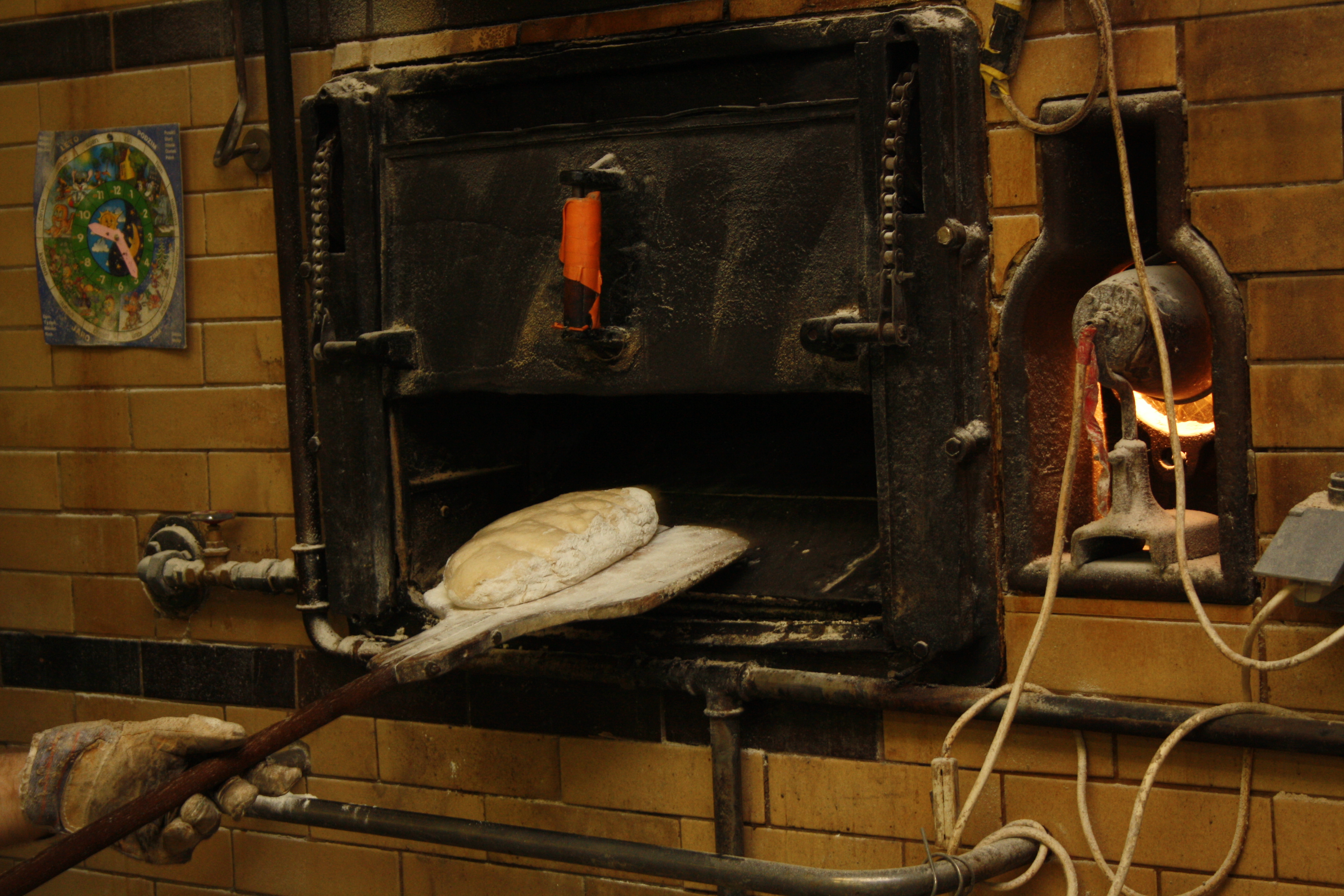 Production process of bread, Czech Republic This photograph was taken with a DSLR from WMCZ's Camera grant. This picture was taken and/or got within the scope of the 'Acquiring scientific and specialized pictures' grant.